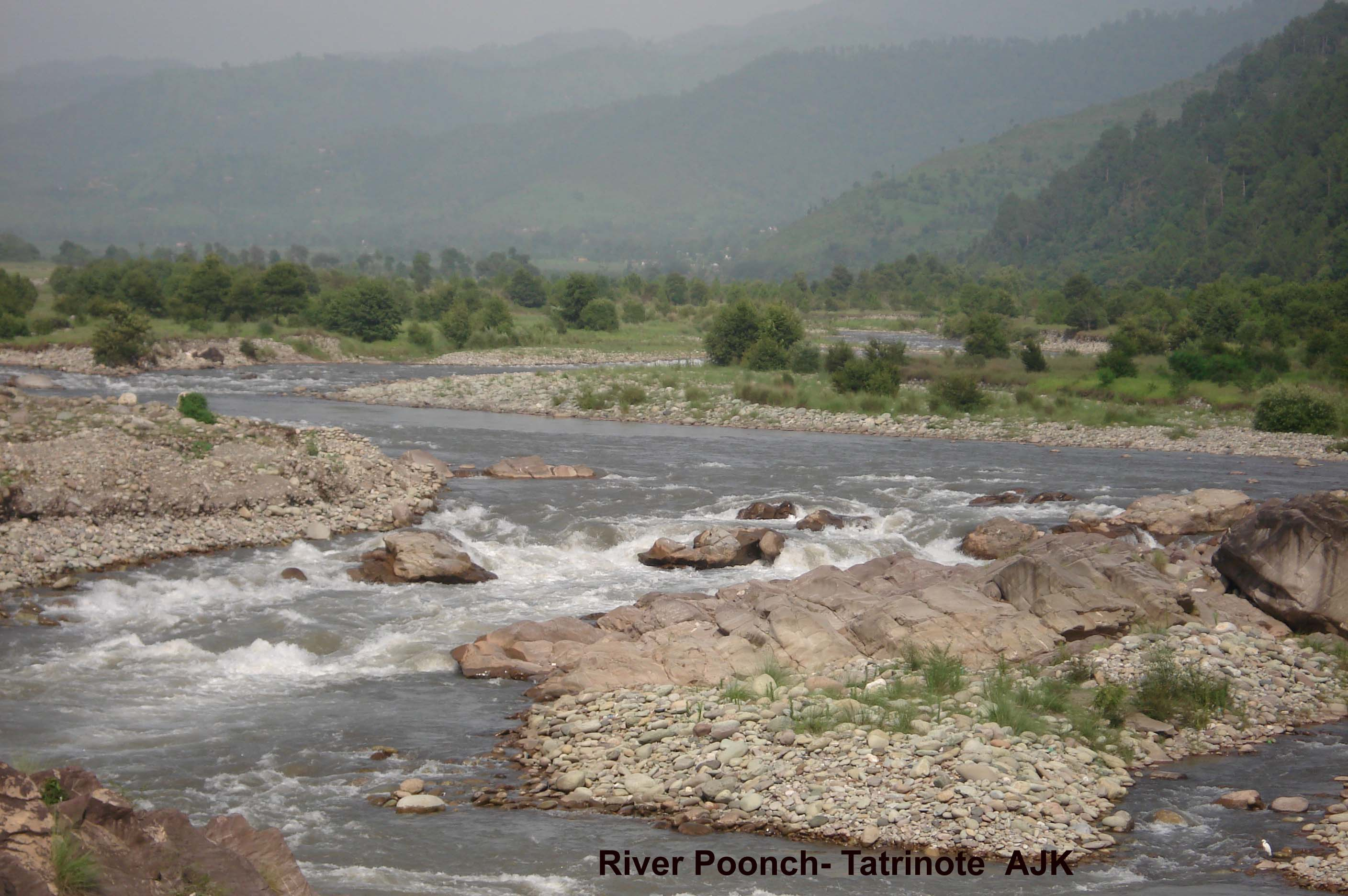 This picture is taken at Tatrinote, Poonch AJK. It's a village situated at [1].LOC